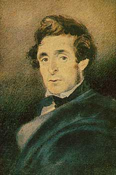 William Buelow Gould (1801 - 1853). English and Van Diemonian (Tasmanian) painter. Transported to Australia as a convict in 1827, he became one of the most important early artists in the colony.